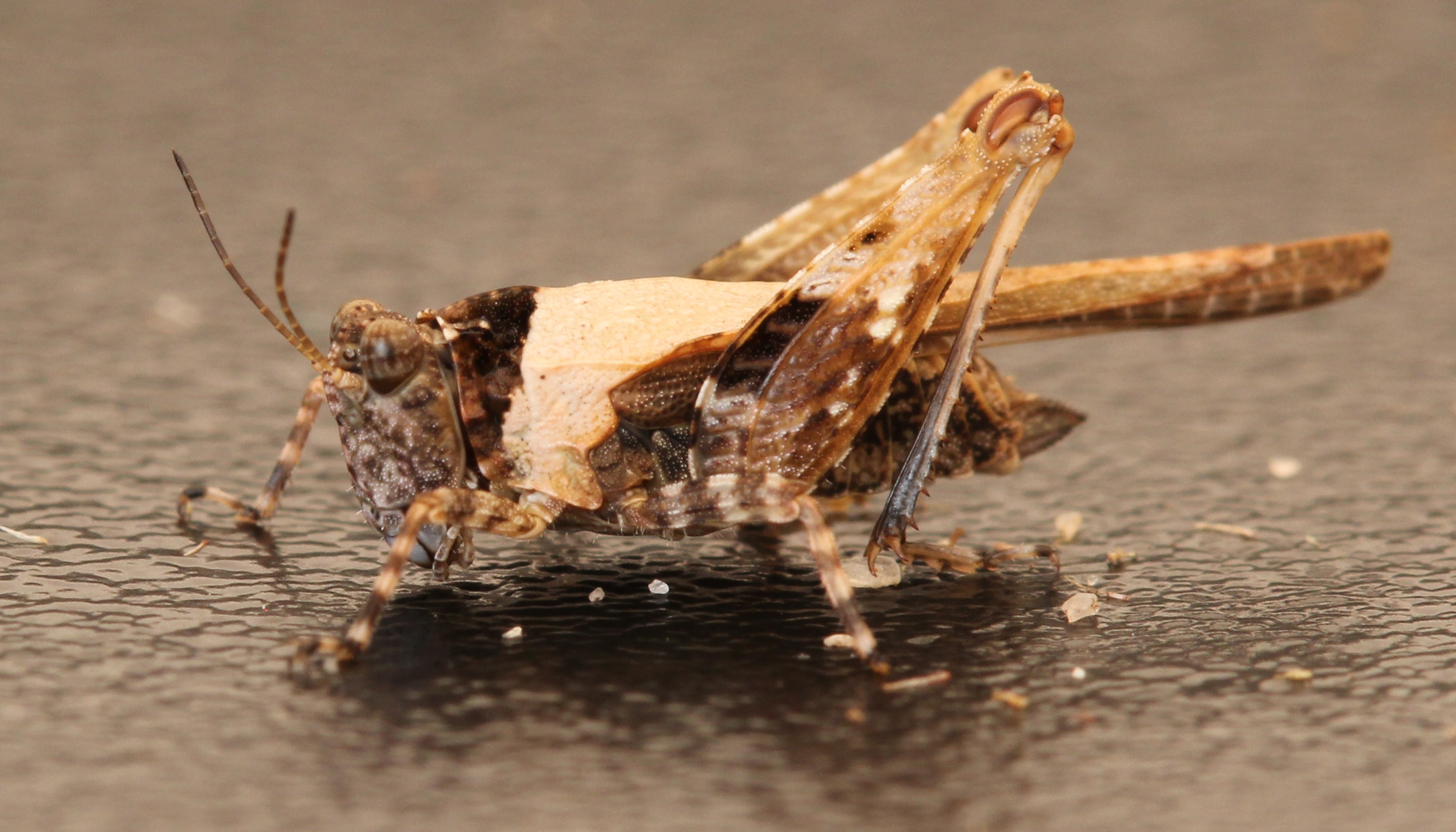 Tetrigidae Lateral aspect. Species unknown